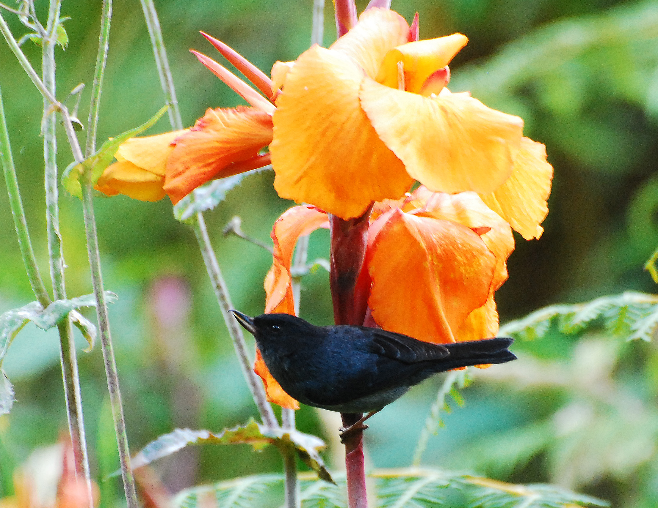 Slaty Flowerpiercer at SavegreLodge, Costa Rica, 080227. Diglossa plumbea.